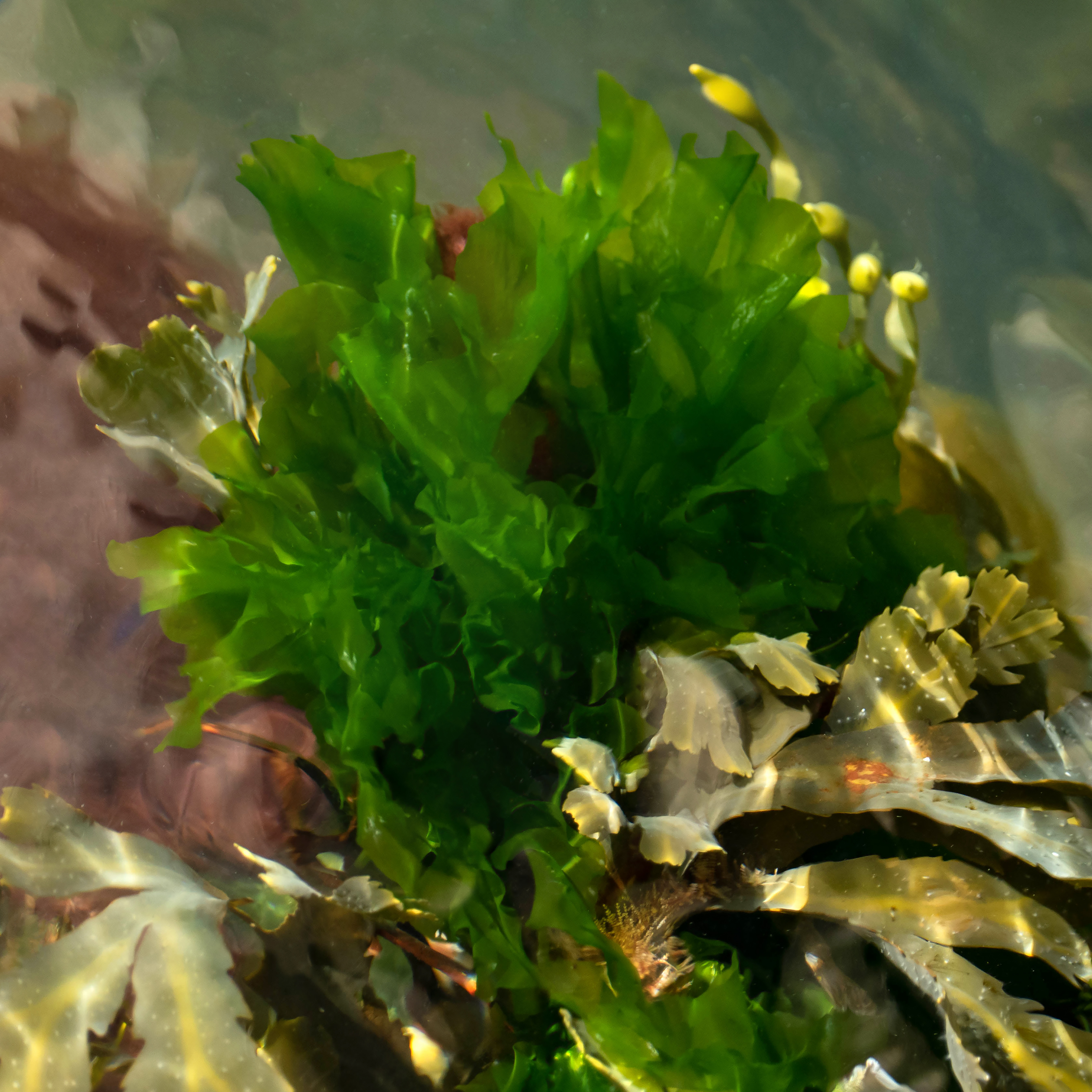 Sea lettuce (Ulva lactuca) growing on the side of an old stone quay in Govik, Lysekil Municipality, Sweden. In front of the ulva are some serrated wrack (Fucus serratus) and at the top right a few strands of knotted wrack (Ascophyllum nodosum). The red in the background is red algae. The image is stacked from four photos to reduce glare and reflections on the water surface.